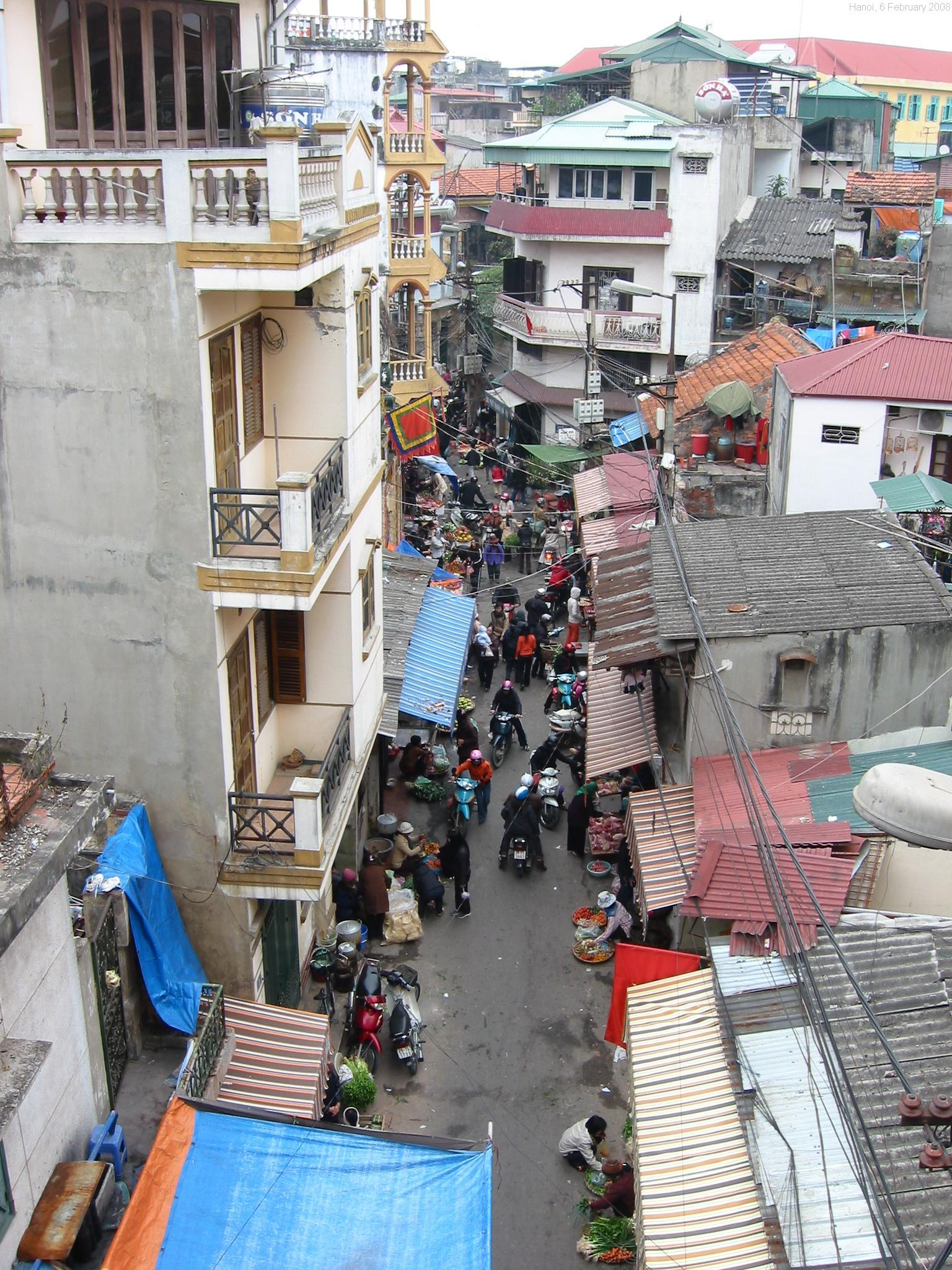 Street scene in Hanoi's Old Town on the eve of Tết.